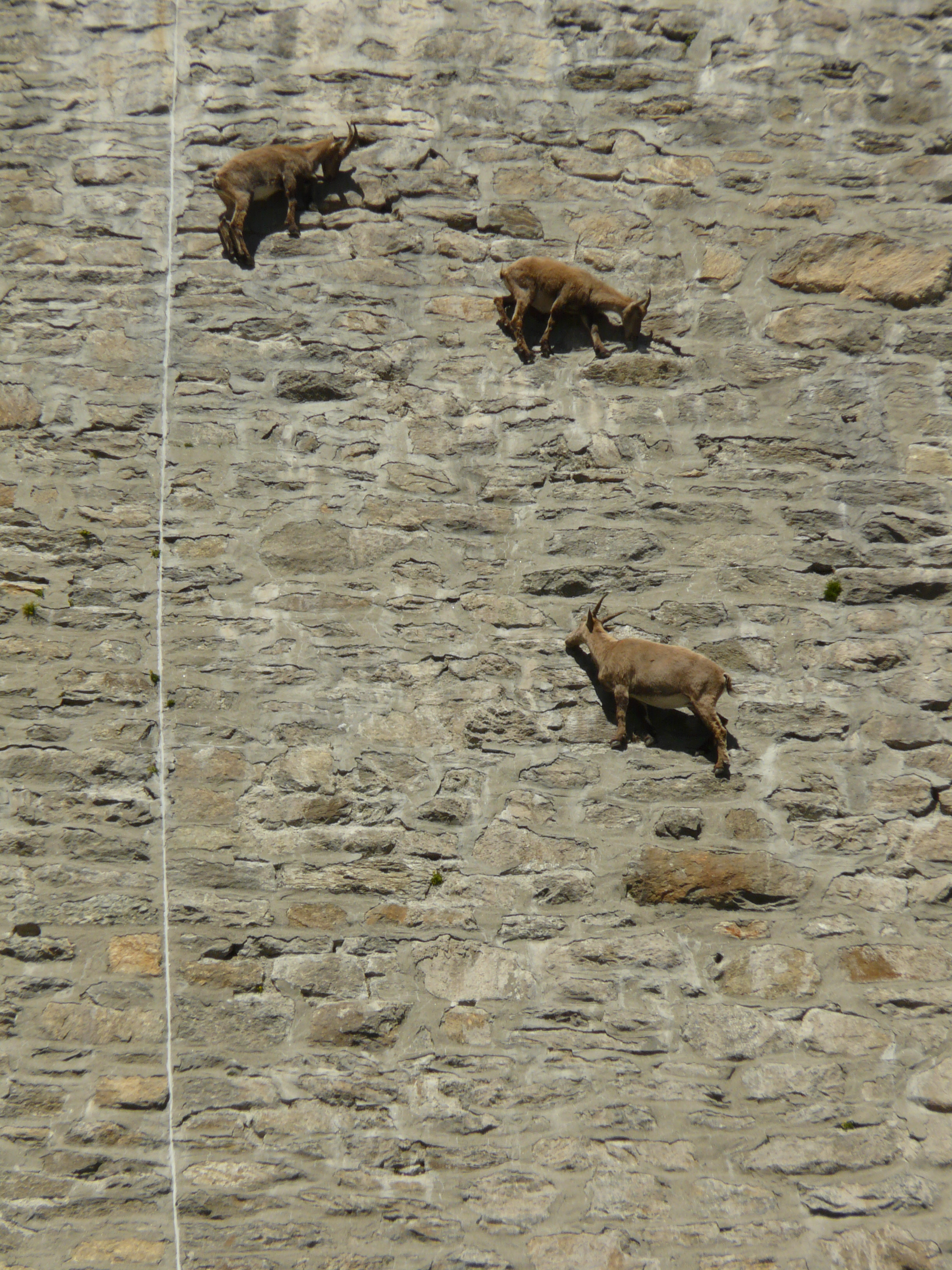 Capricorns at Cingino dam, Italy